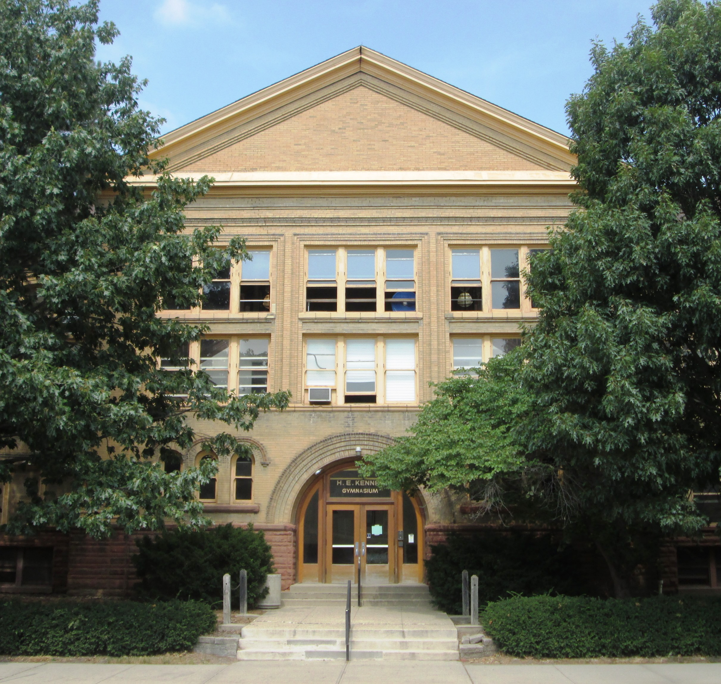 The Kenney Gym and the Kenney Gym Annex are two buildings located at 1402-06 Springfield Avenue in Urbana, Illinois on the campus on the University of Illinois at Urbana-Champaign. Although the two buildings have been connected since 1914, they were built separately. The one-story building now known as the Kenney Gym Annex, the westernmost of the two structures, was built in 1889-90 as the Military Drill Hall, and was designed by Nathan Clifford Ricker. The interior was converted for use as a gymnasium in 1914, at which time is became known as the Kennry Gym Annex. The conversion preserved the building's large column-free open space; an addition was made to the building in 1918. The Kenney Gym, the two-story building to the east, was built in 1902 and was designed by Nelson Strong Spencer in the Renaissance Revival style, strongly influenced by Ricker's design for the drill hall. It was originally called the Men's Gymnasium, then was called the Men's Old Gym when Huff Hall opened in 1925. Finally, in 1974, it was named after Harold Eugene "Hek" Kenney, a former UIUC wrestler, coach and administrator. The buildings were added to the NRHP in 1986 under the name "Military Drill Hall and Men's Gymnasium". (Sources: NRHP Designation Report and [1])